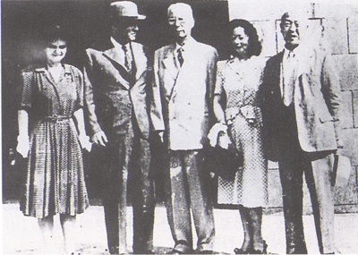 Francesca Donner Rhee, John Reed Hodge, Philip Jaisohn, Muriel(Philip's daugther), Syngman Rhee in Seoul, 1947)